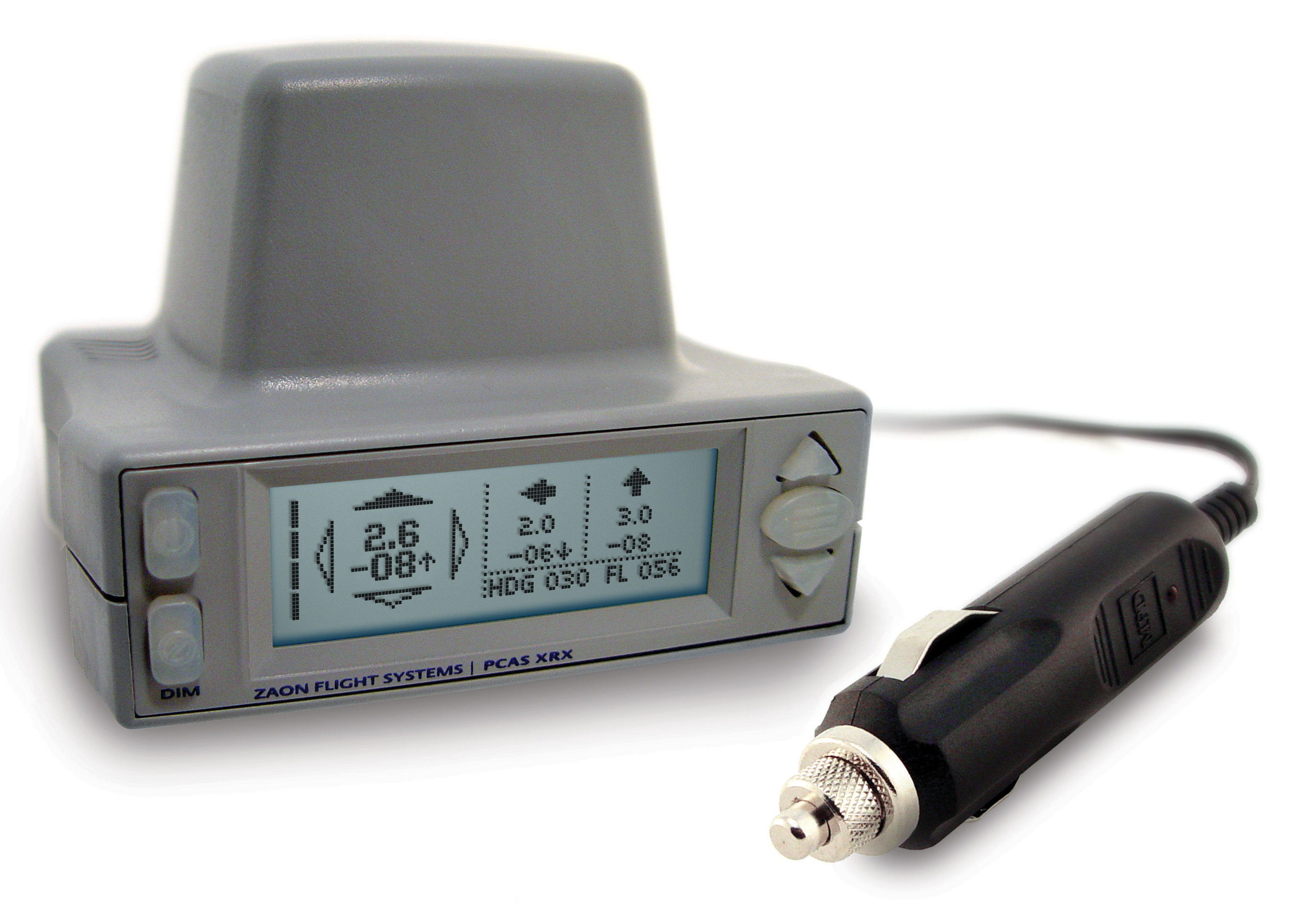 Image of a Portable Collision Avoidance Device. I am the image creator, Jason Clemens, of Zaon Flight Systems, and hereby allow release of this image to public domain (verifiable at )